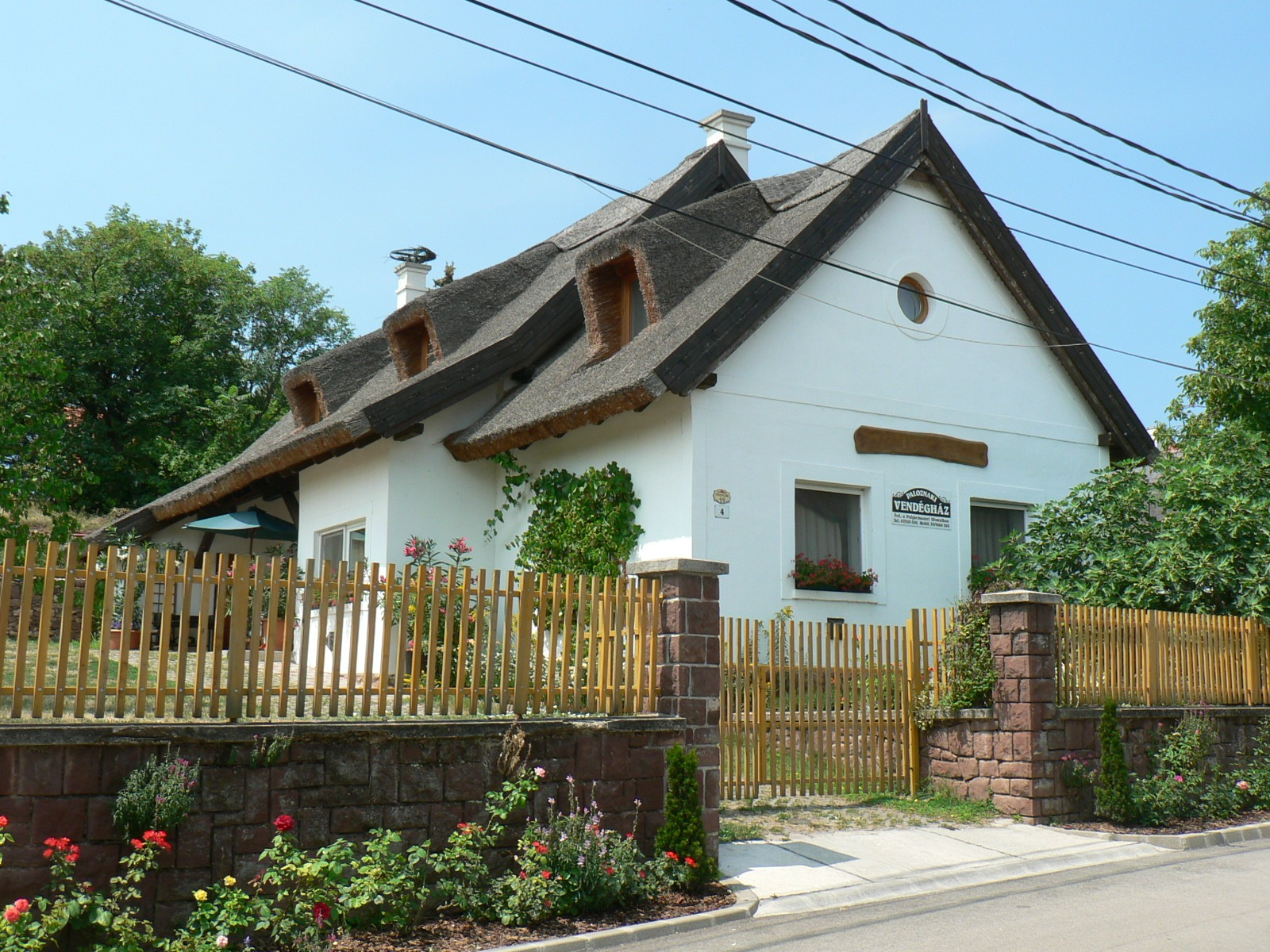 Jellegzetes paloznaki lakóház